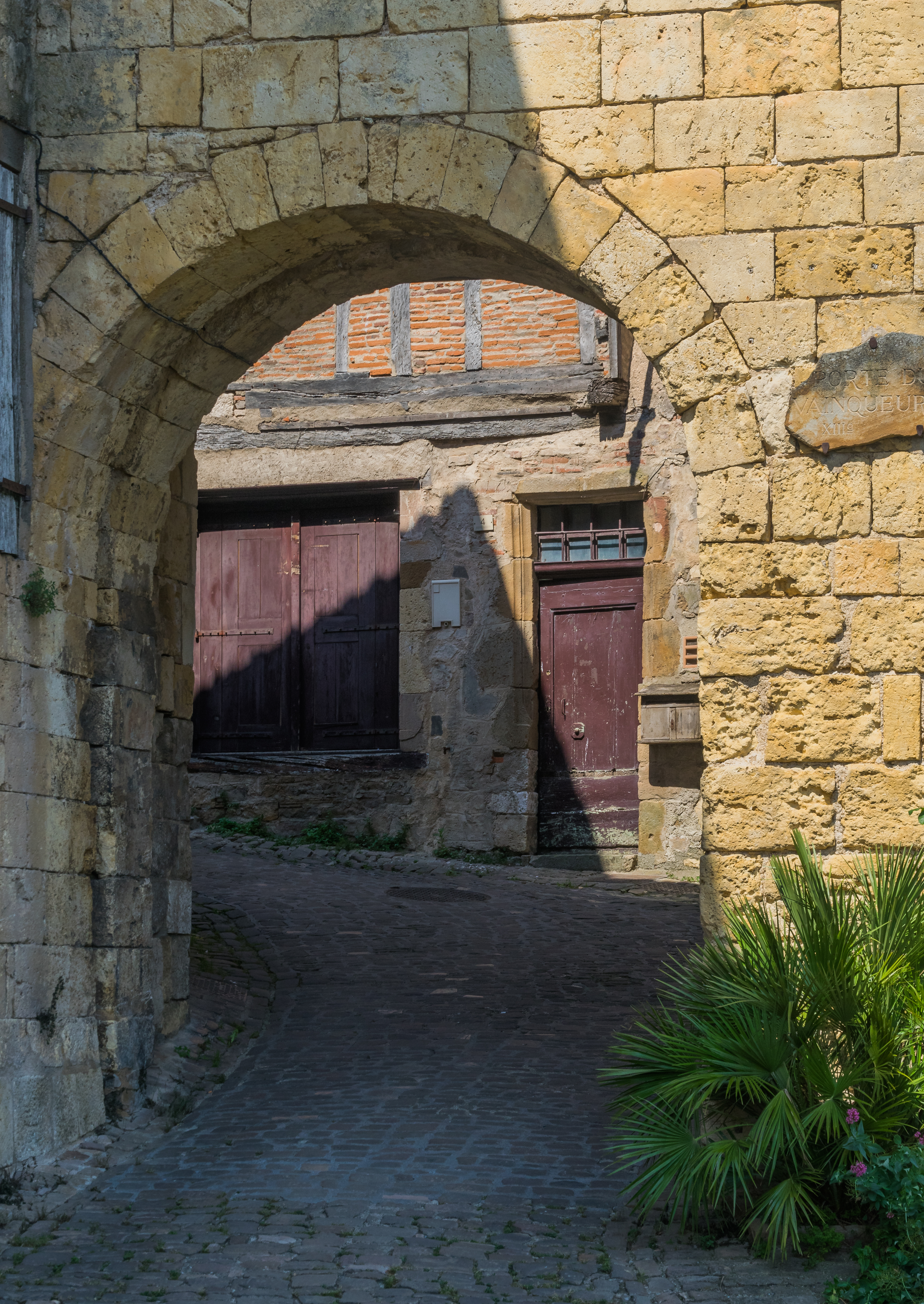 Porte du Vainqueur in Cordes-sur-Ciel, Tarn, France .